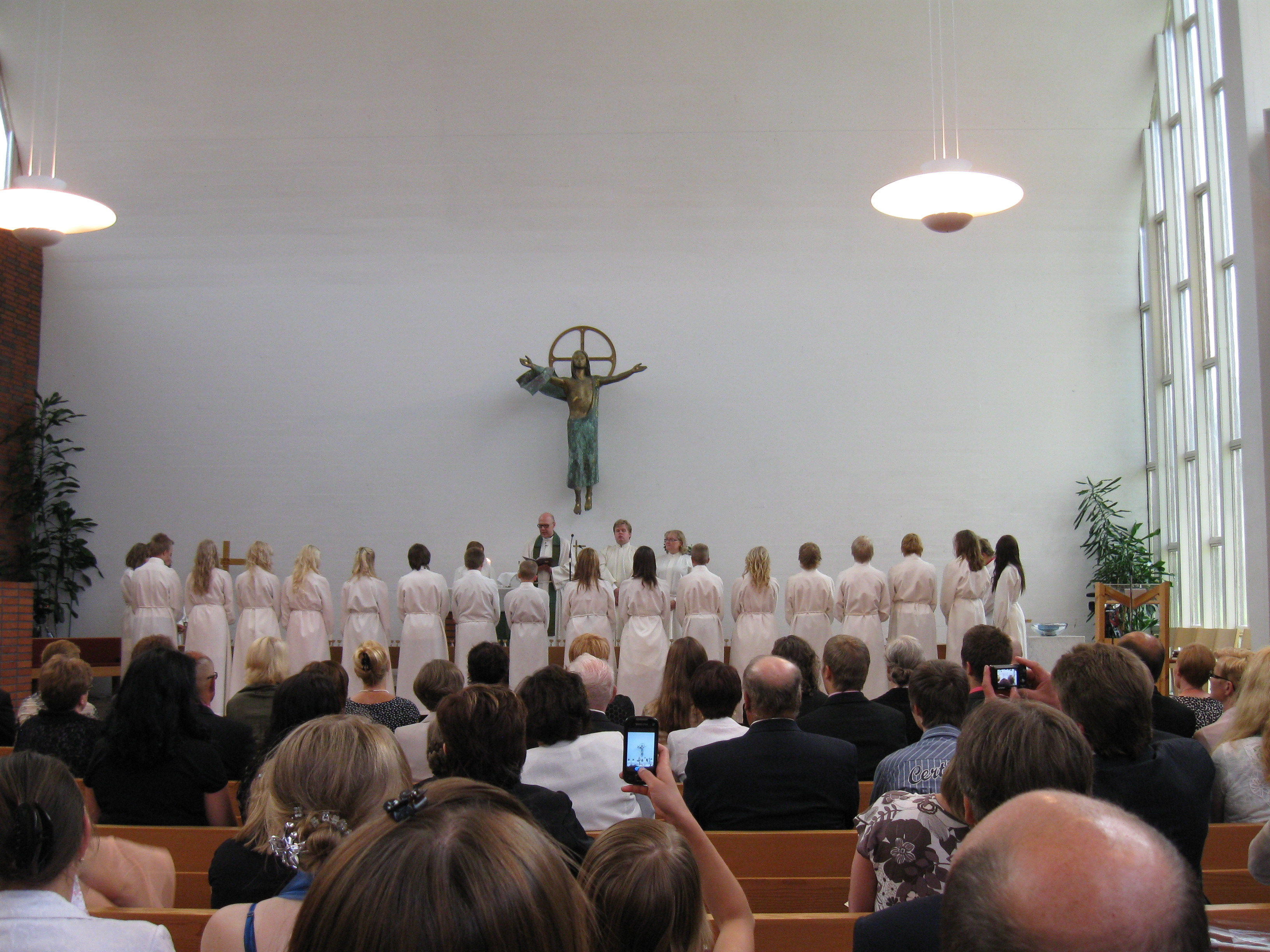 Confirmation at the Karjasilta Church in Oulu, Finland.